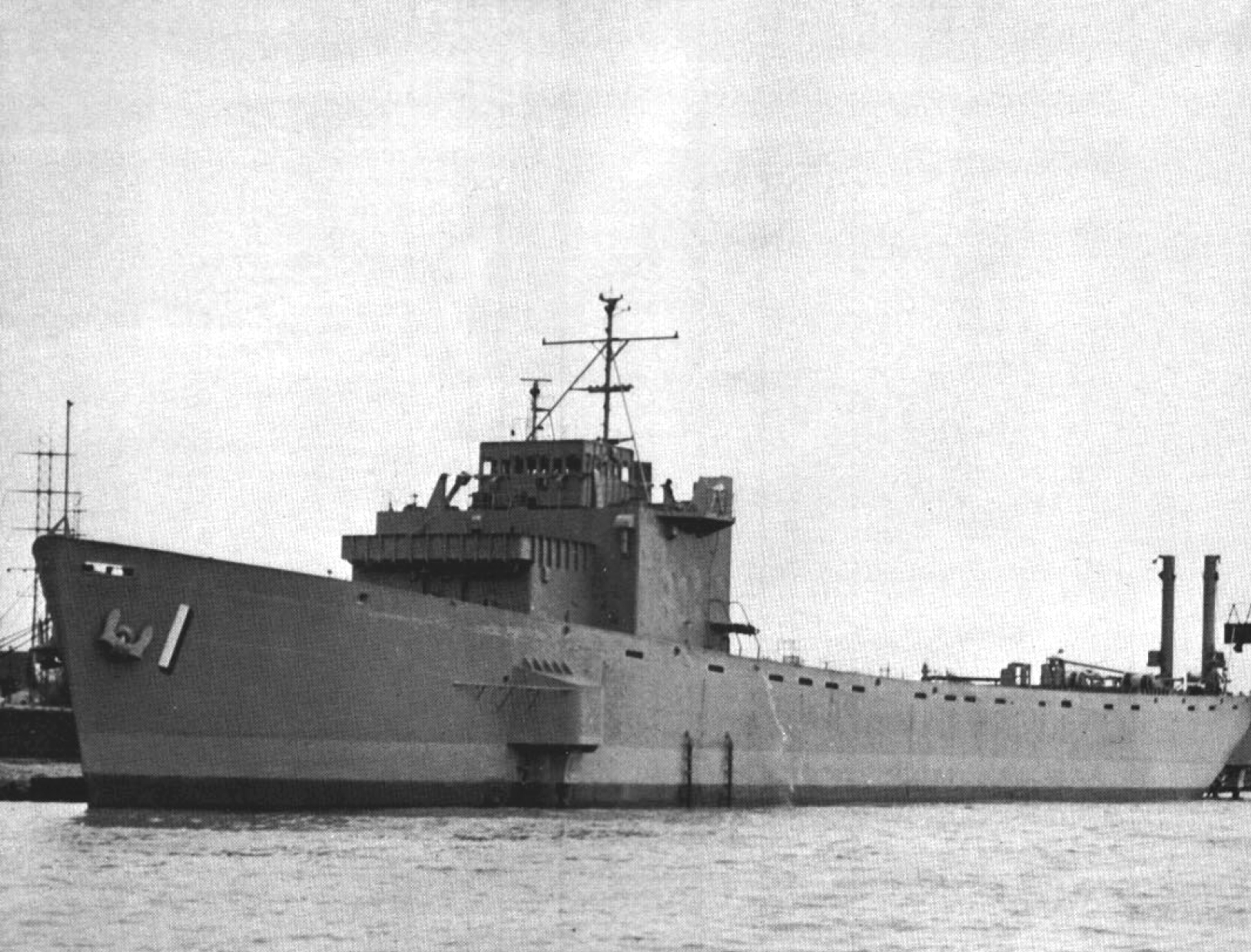 Minesweeper Special Device USS Harry L. Glucksman (MSS-1) pierside at American Shipbuilding, Lorraine, Ohio, (USA), in April 1969. The ship was laid down on 18 March 1944 as the Liberty ship SS Harry L. Glucksman (MC type EC2-S-C1) by the Southeastern Shipbuilding Corporation of Savannah, Georgia (USA). The ship was delivered to the Maritime Commission on 20 May 1944, she was operated under contract by a commercial steamship company for the duration of World War II. After the war she was returned to the Maritime Commission and laid-up in the National Defense Reserve Fleet. The ship was accepted by the Navy in June 1969 after conversion by American Shipbuilding of Lorraine, Ohio, to a "Special Device Minesweeper." The ship's hull was completely gutted and filled with 3965 cubic metres of styrofoam. A shock-hardened pilot house was also fitted. Intended to sweep influence mines by detonating them with pressure wave or magnetic signature generated by her hull. In late summer of 1969, the ship underwent extensive shock testing off Key West, Florida. Placed in service in June 1969, she was removed from service 15 March 1973 and returned to the Maritime Administration (MARAD) for disposal. The Harry L. Glucksman was scrapped in 1975 at Brownsville, Texas.